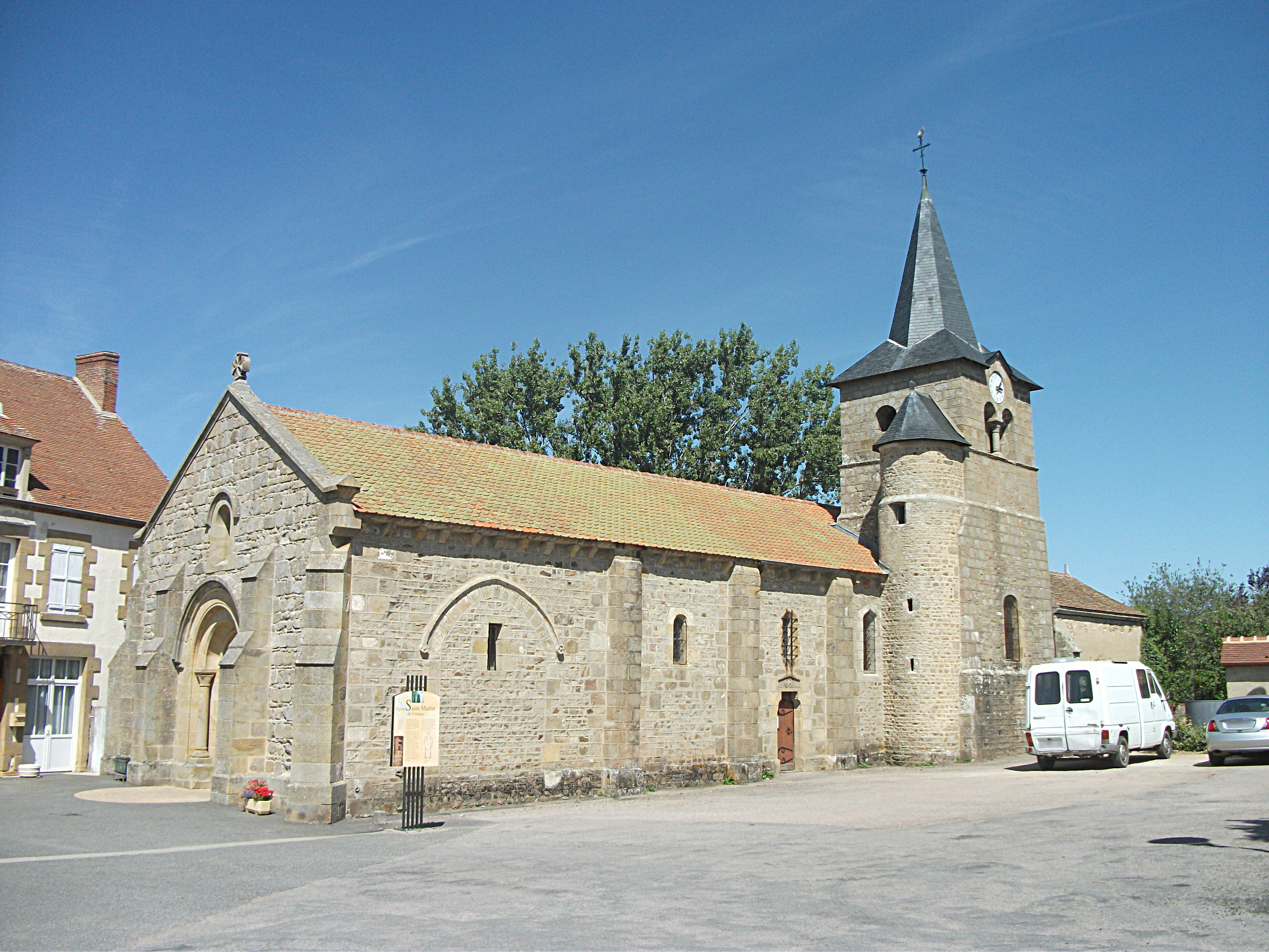 Church St. Martin in Voussac, Allier, Auvergne-Rhône-Alpes, France. [18974]